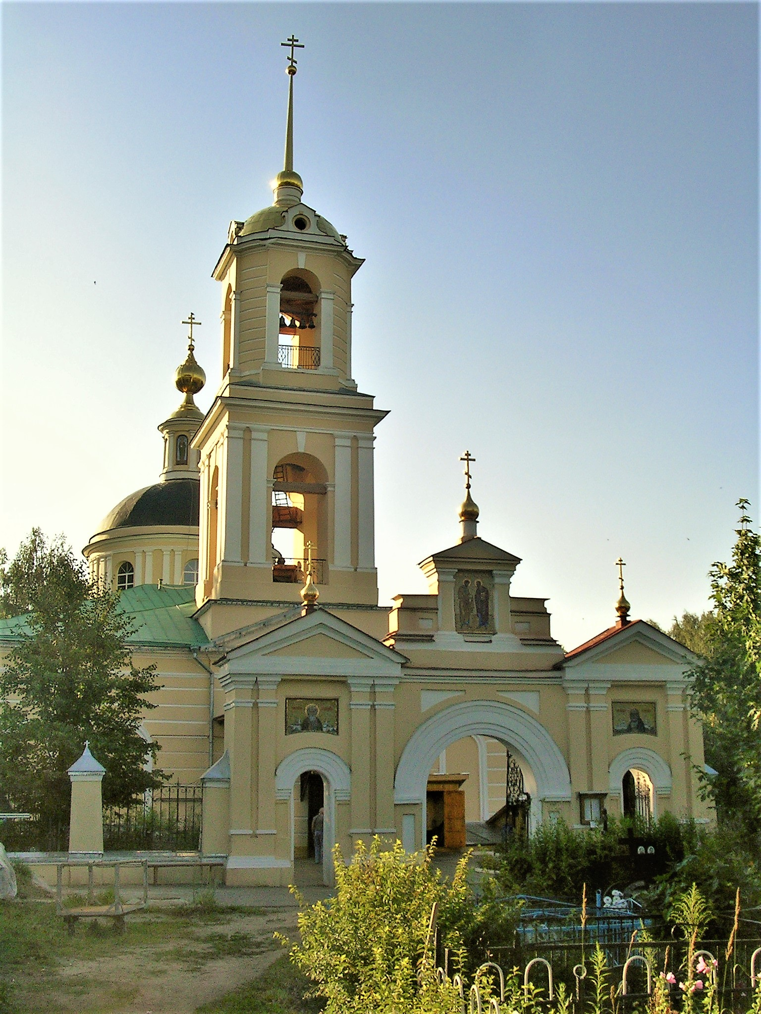 Saints Peter and Paul temple in Obukhovo, Noginsk district, Moscow region. Summer 2010 photo.